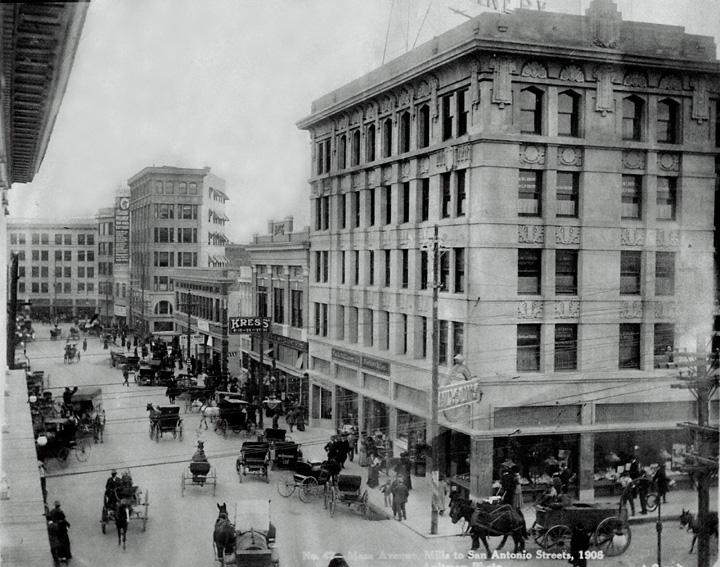 In 1908, horse-drawn buggies and wagons peppered the intersection of Mesa and Mills streets in Downtown El Paso. Photo courtesy of El Paso Public Library.